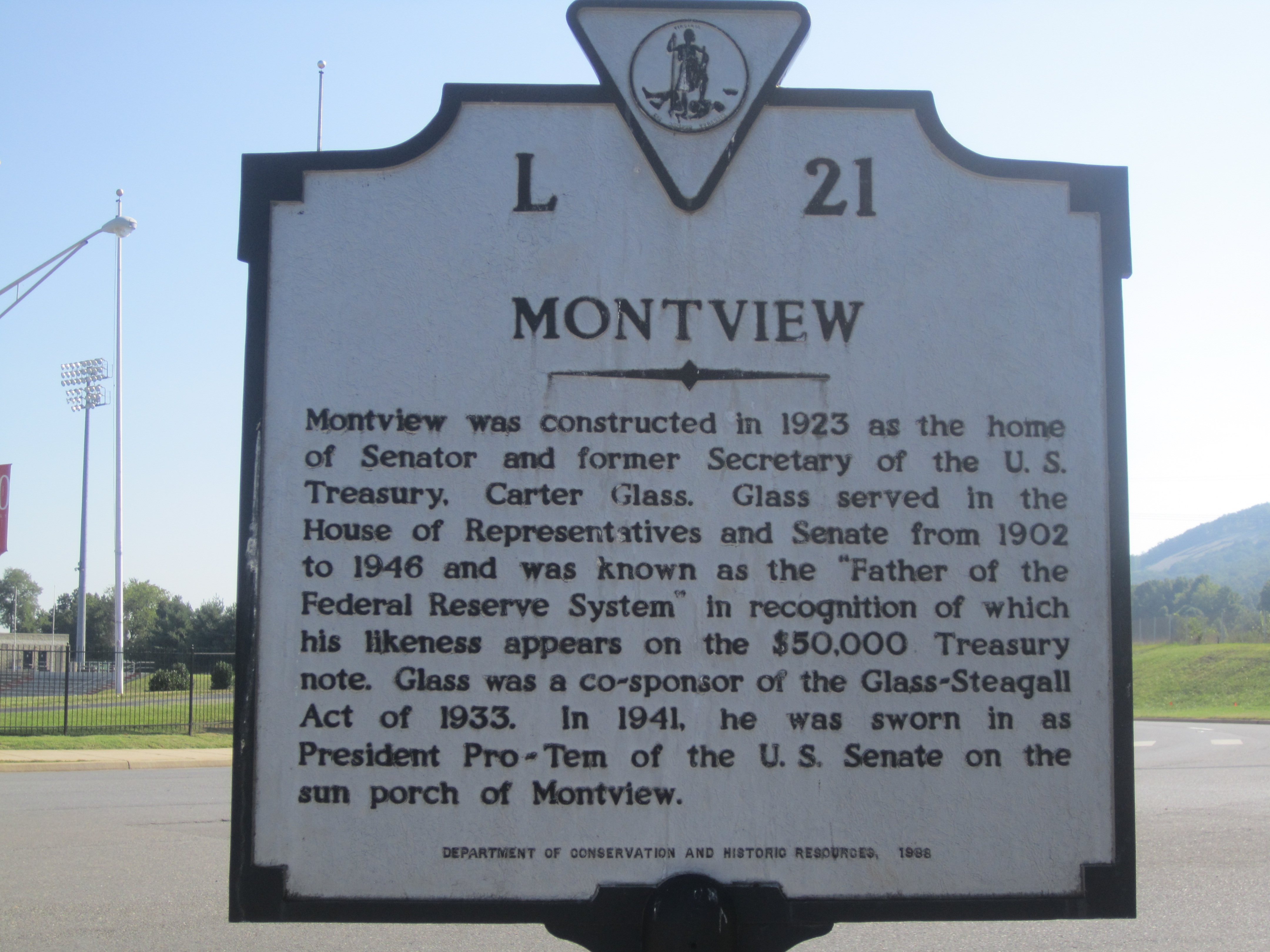 I took photo of Carter Glass's Montview historical marker in Lynchburg, VA, with Canon camera.